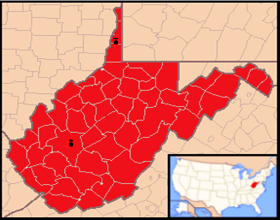 The Catholic Diocese of Wheeling-Charleston encompasses the entire state of West Virginia, USA.